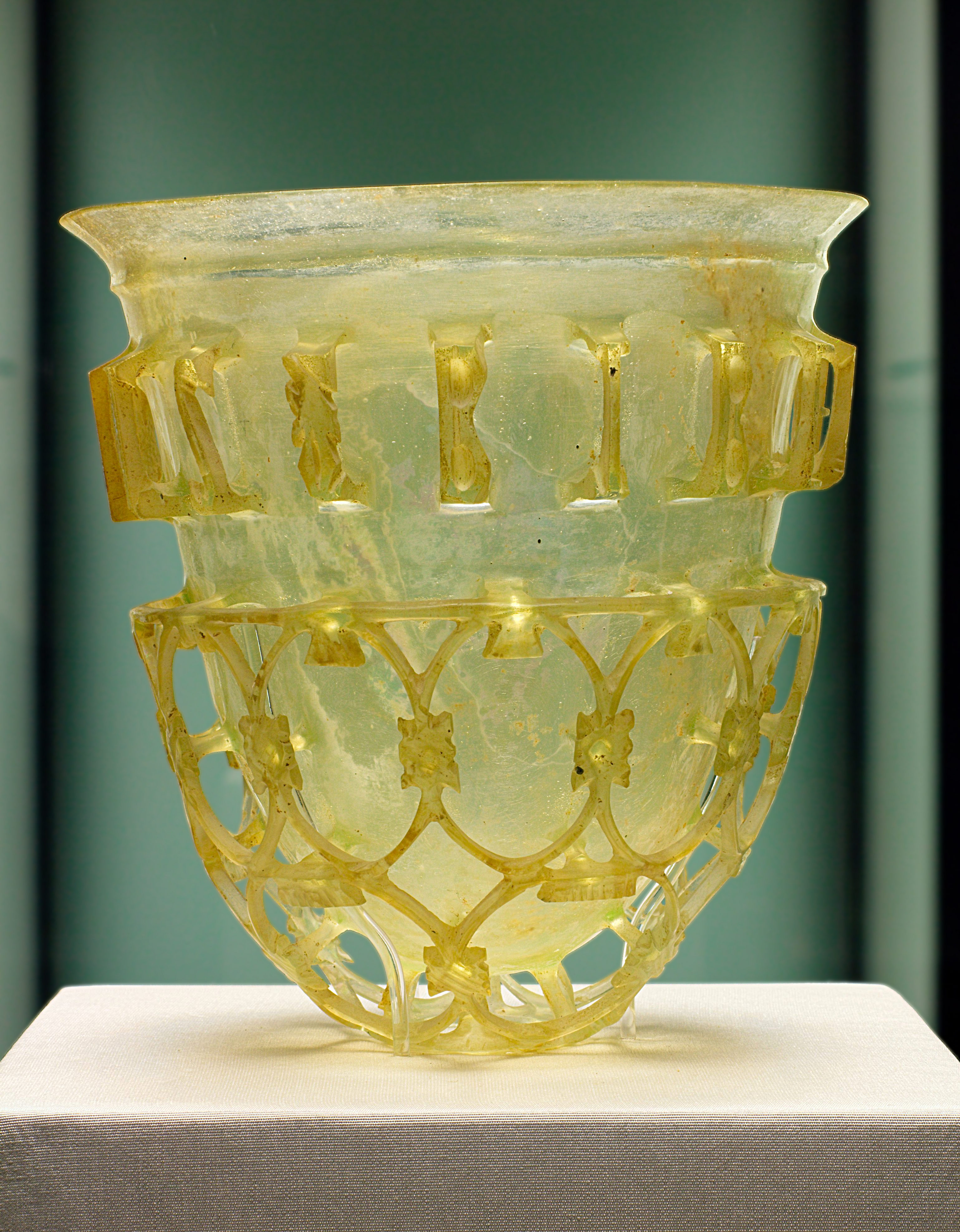 Roman glass beaker from second half of the 4th century. Found in Cologne, now in the Staatliche Antikensammlung Munich. The style is called diatret, there are only 50 beakers left, most are broken. The characters at the top: "Bibe multis annis" short for "Bibe vivas multis annis" (Drink and you will live for many years"). Photographed by myself in Antikensammlung München.